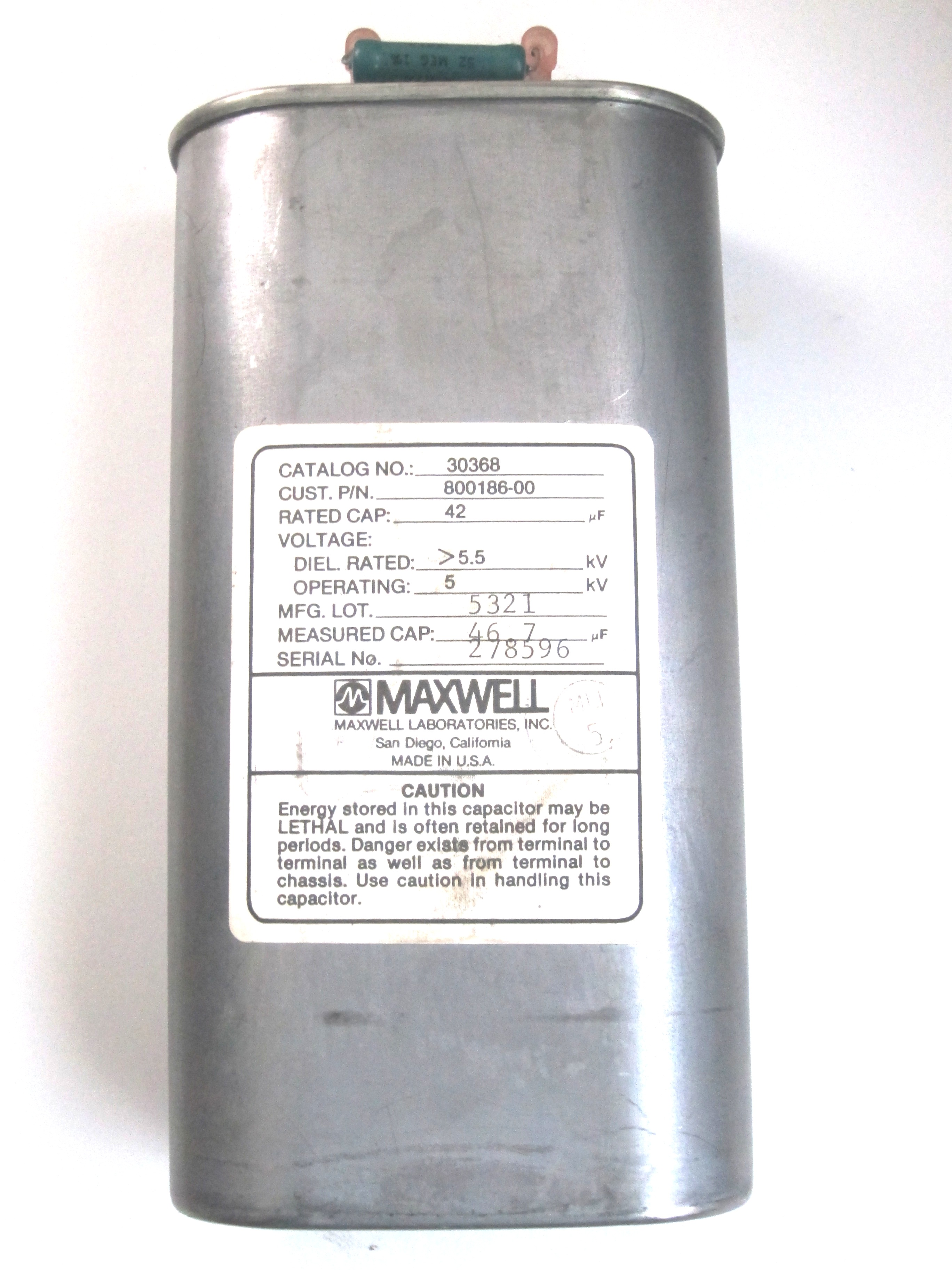 A high-energy capacitor used on a defibrillator. With 42 microfarad at 5000 volts, the capacitor is capable of delivering a very dangerous 525 joules of energy. In addition to warning labels, the capacitor has a resistor connecting the electrodes, to allow the capacitor to discharge slowly, for safety. The capacitor's size is 7 inches tall, 3 1/2 inches wide and 1 3/4 inches thick.